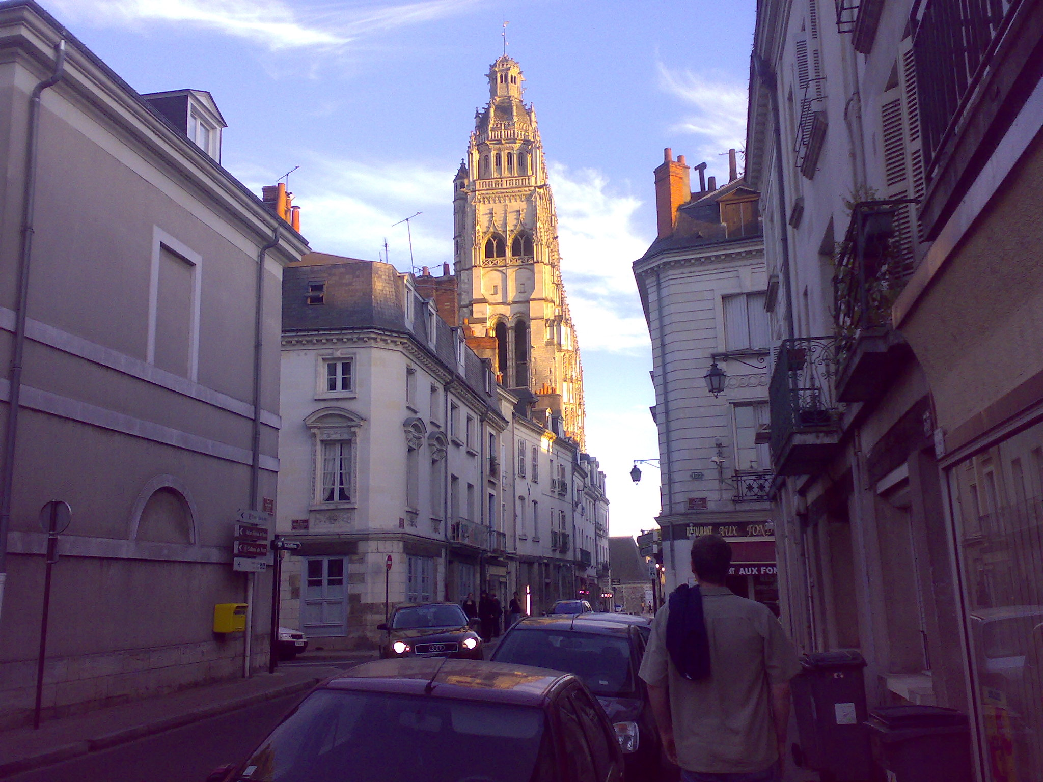 St Gatien Cathedral, Tours, as viwed from Lavoisier Street.